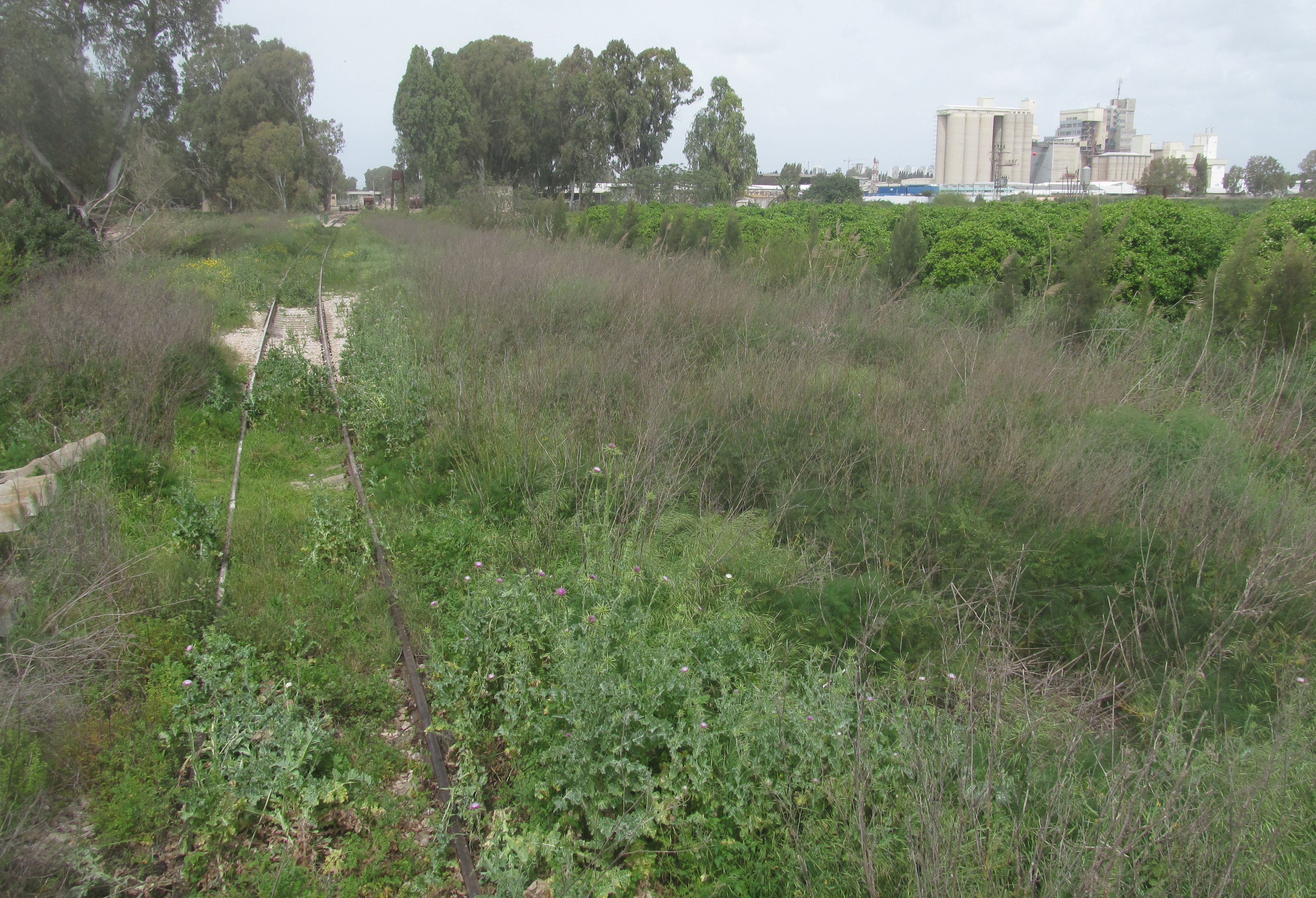 Eastern Railway ending just south of Hadera East railway station